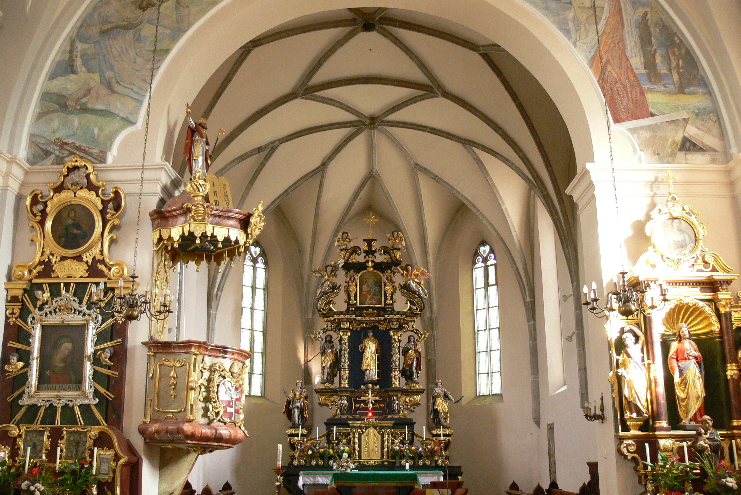 Kleinzell im Mühlkreis ( Upper Austria ). Saint Lawrence parish church - Interior.